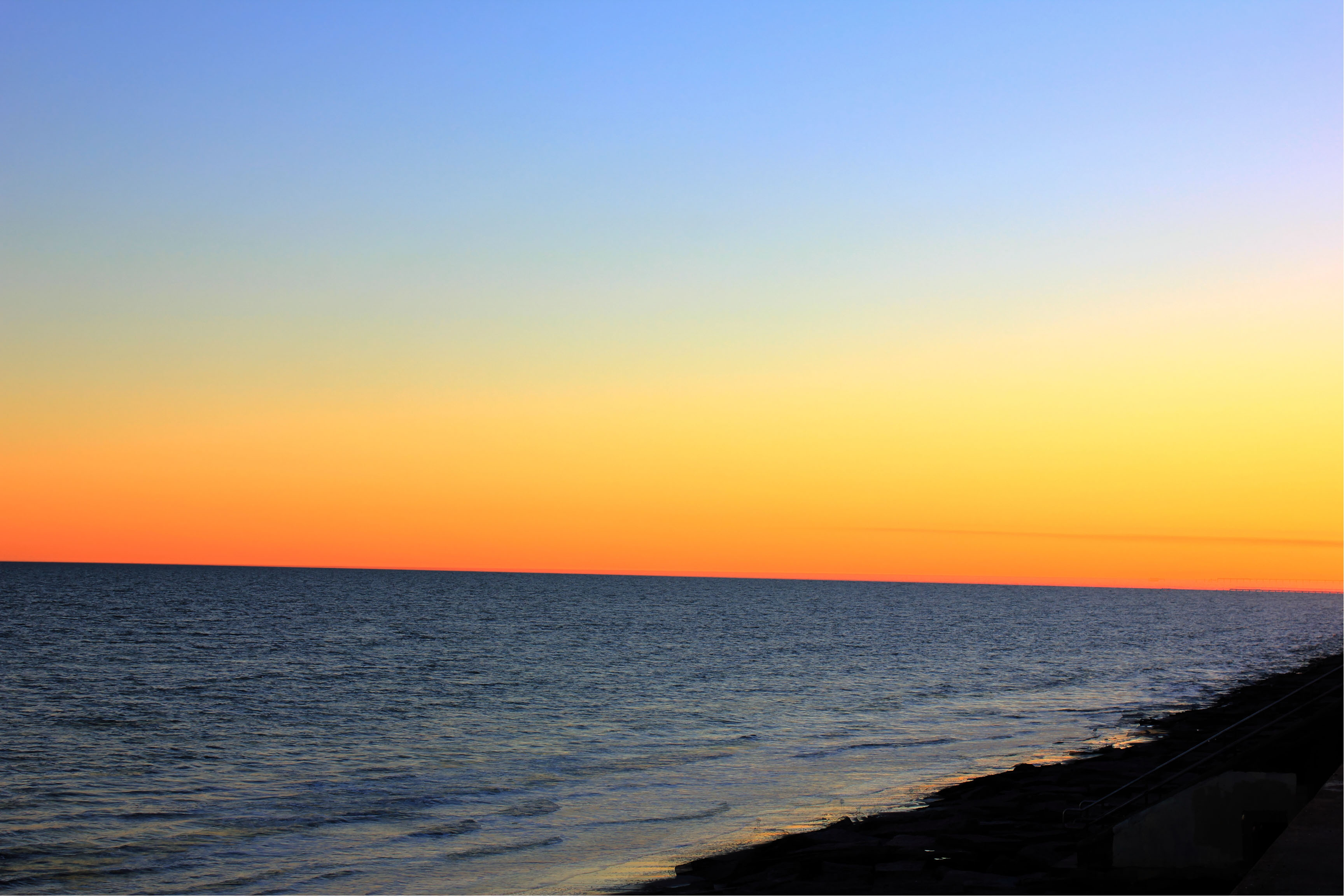 Galveston Island State Park in a 2013 acre park in Galveston texas. The park has a beach as well as brackish ponds and bay for fishing. The park also has a larg The peaceful ocean at sunset